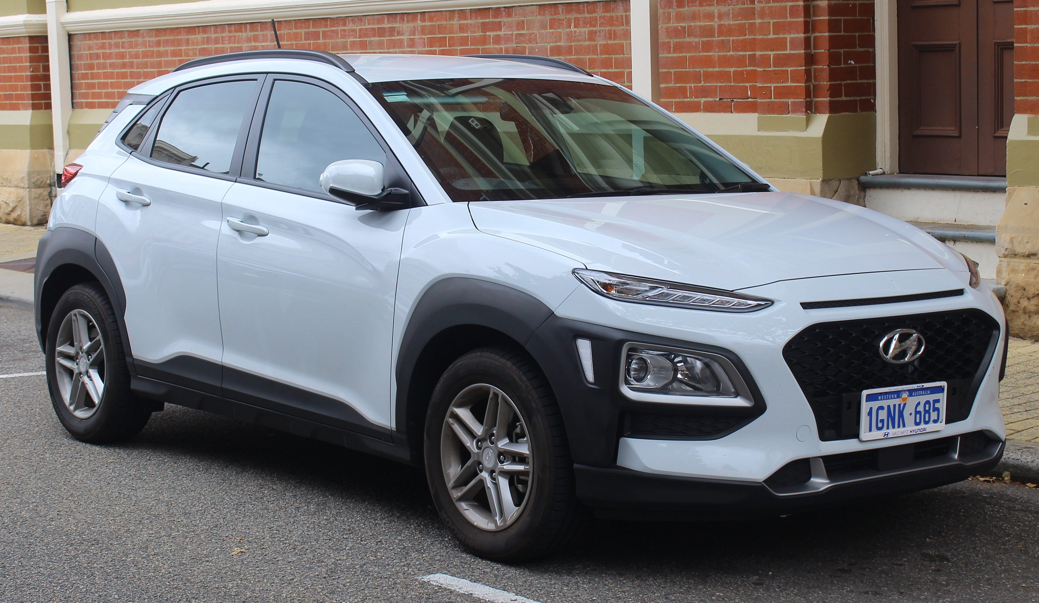 2018 Hyundai Kona (OS MY18) Active 2WD wagon. Photographed in Fremantle, Western Australia, Australia.